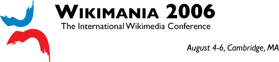 Wikimania logo. (Copyleft notice might be out of date -- Wikimedia Foundation will soon own all rights.)